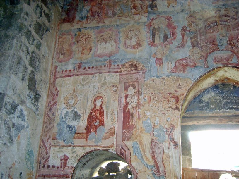 Kaymakli monastery Frescoes, Trabzon, Turkey (P.S. Date and time of data generation error)